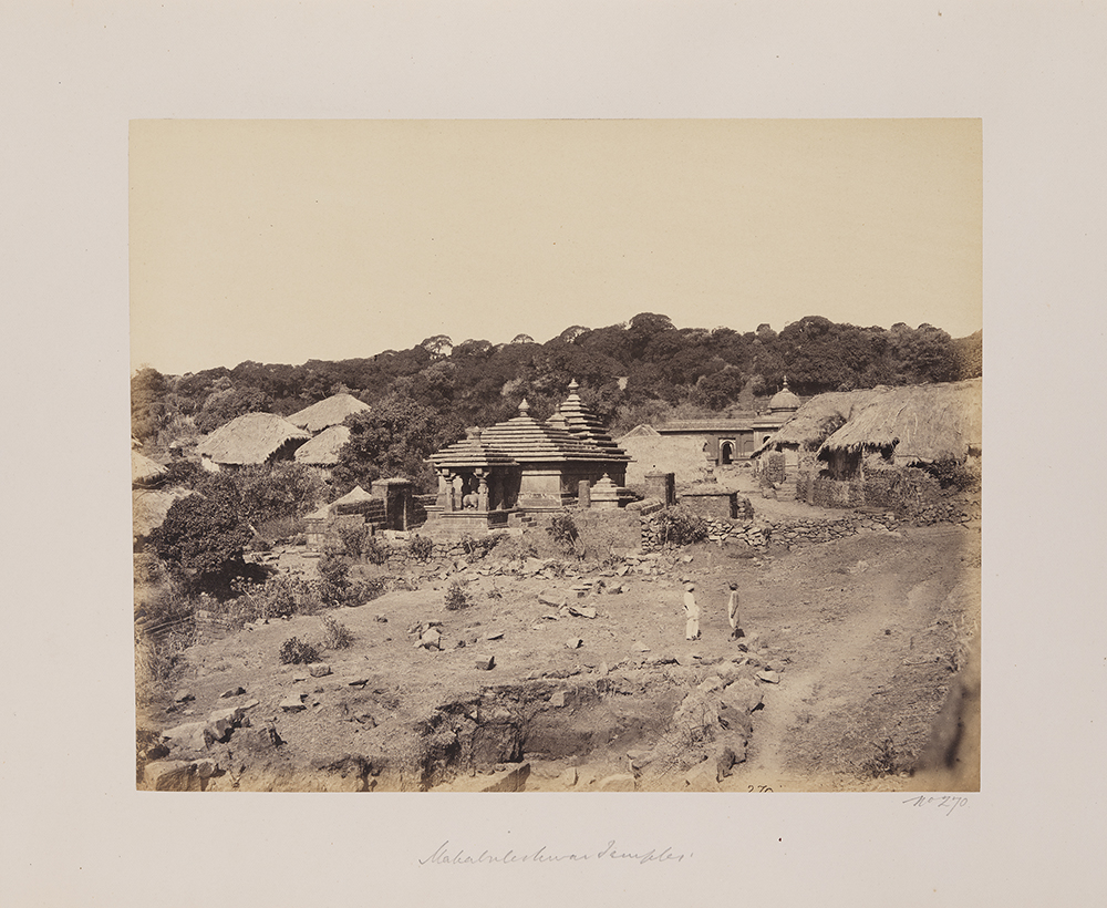 Title: Mahabuleshwar Temples. Alternative Title: [Krishnabai Temple at Mahabaleshwar] Creator: Johnson, William Date: ca. 1855-1862 Series: Photographs of Western India. Volume III. Scenery, Public Buildings, &c. Part of: Photographs of Western India Place: Mahabaleshwar, Maharashtra, India Physical Description: 1 photographic print: albumen, part of 1 volume (104 albumen prints); 20 x 26 cm on 35 x 42 cm mount File: vault_ag2002_1407x_3_270_mahabuleshwar_opt.jpg Rights: Please cite Southern Methodist University, Central University Libraries, DeGolyer Library when using this image file. A high-quality version of this file may be obtained for a fee by contacting . For more information, see: View Europe, India, and Asia: Photographs, Manuscripts, and Imprints